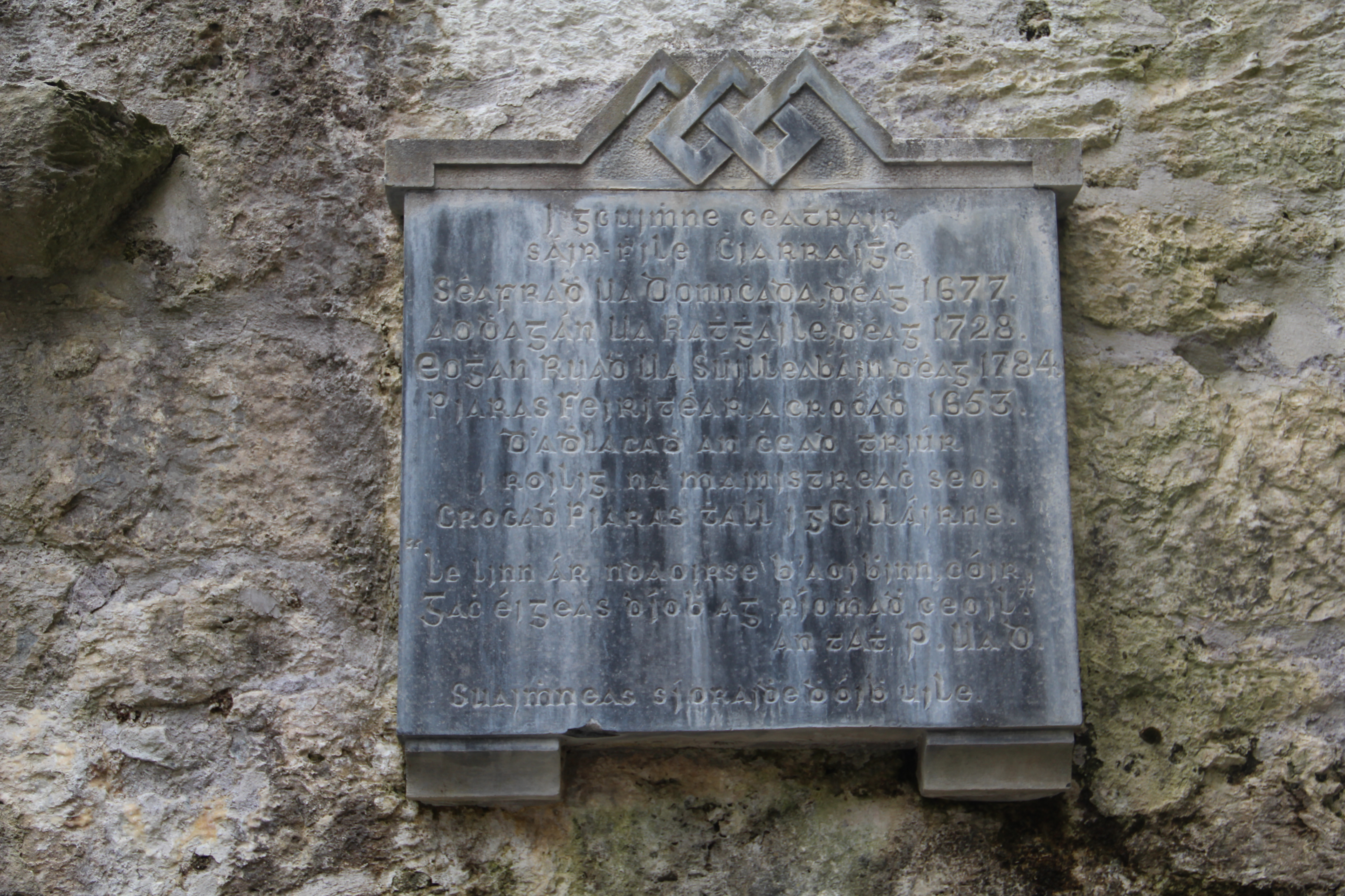 Memorial Stone in Muckross Abbey to Seafradh Ó Donnchadha (1620-85),Aogán Ó Rathaille (1670-1726), Eoghan Rua Ó Súilleabháin (1748-82) and Piaras Feiritéar (c. 1600-1653).